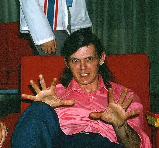 Steven Utley, late science fiction author, Aggiecon IV, Texas A&M University, College Station, Texas, March, 1973.